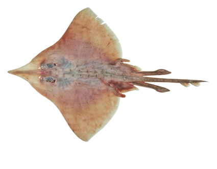 Dipturus healdi